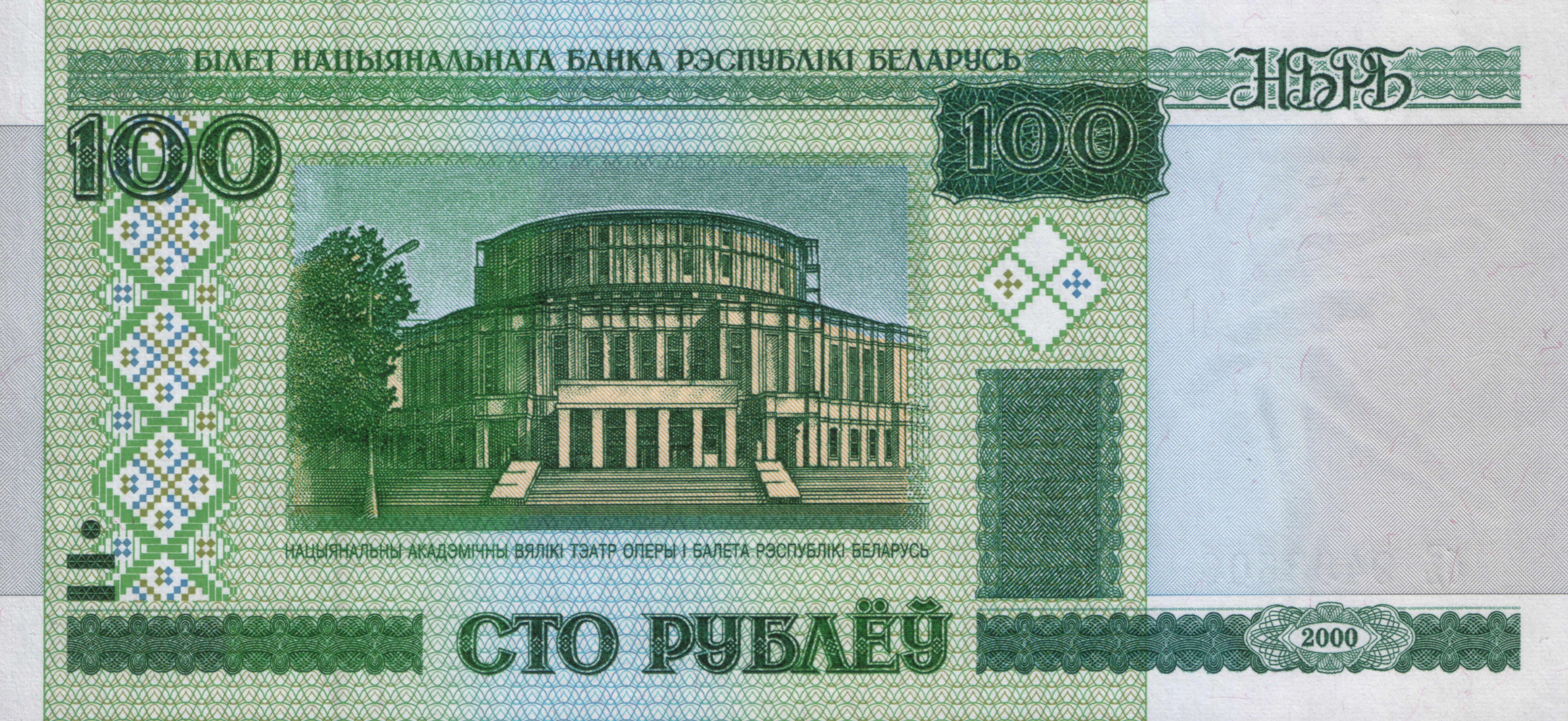 100 roubles of Belarus (2000)